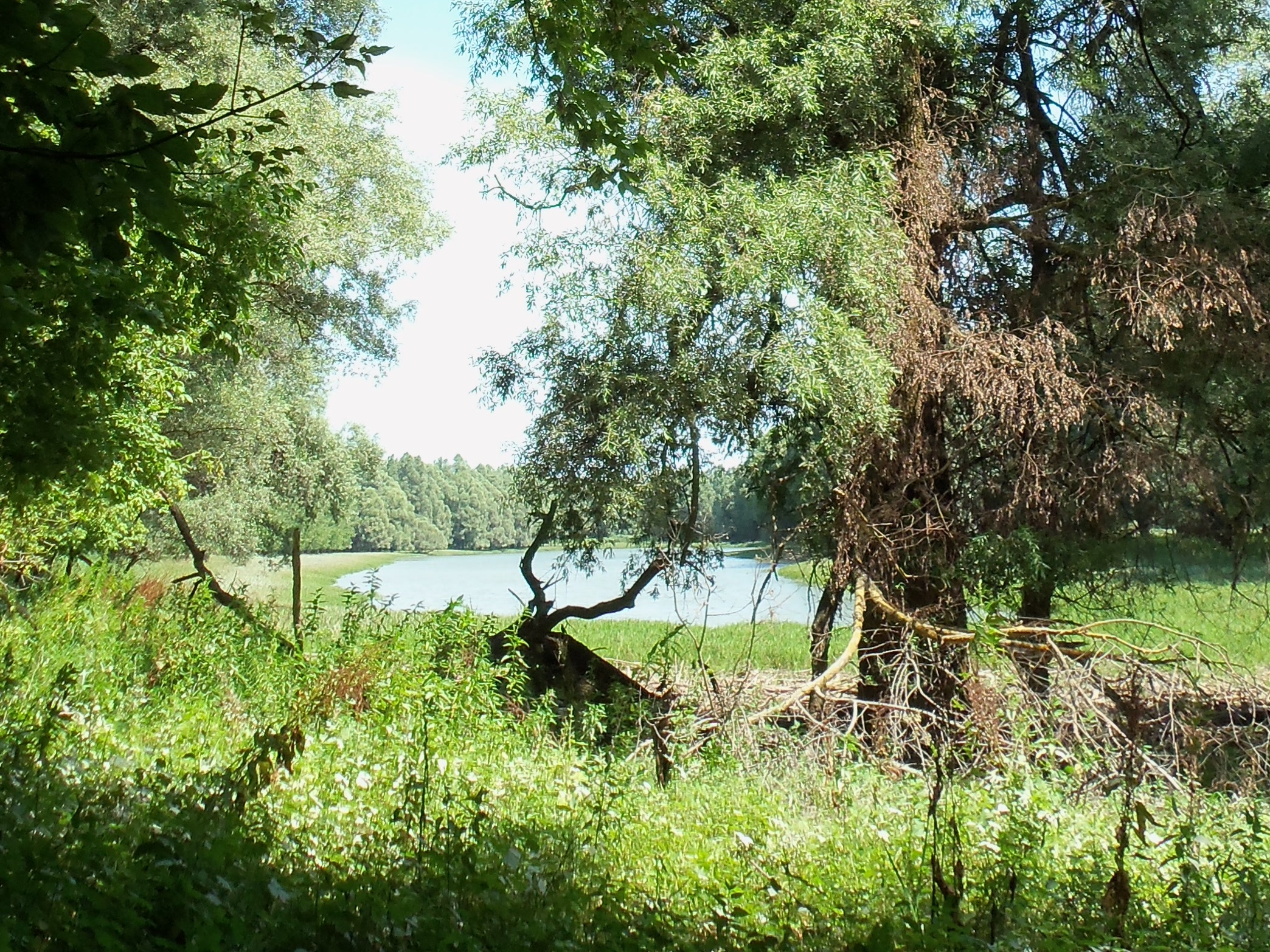 Oxbow lake South-East of Lassi in Gemenc forest, Hungary